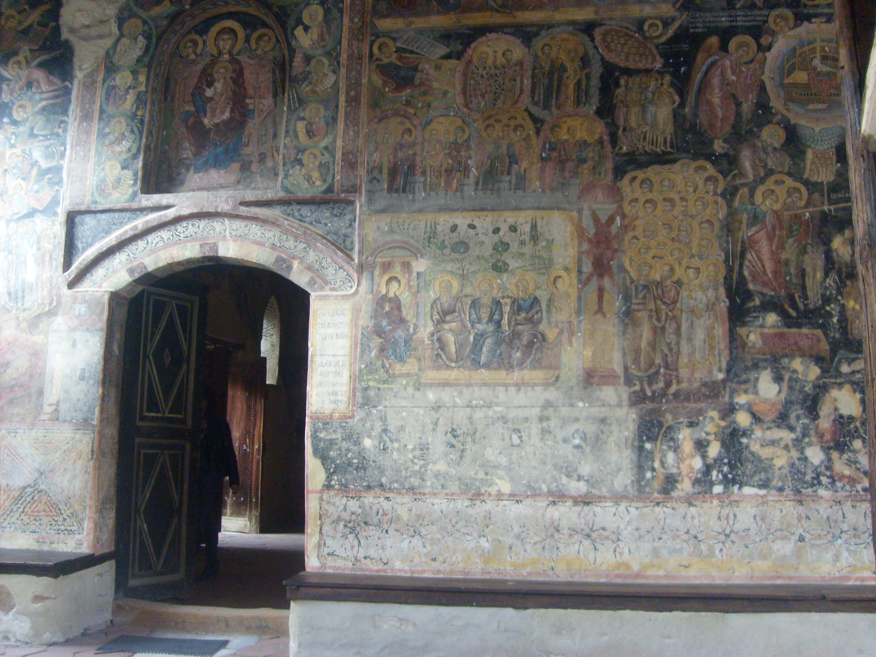 Rozhen Monastery